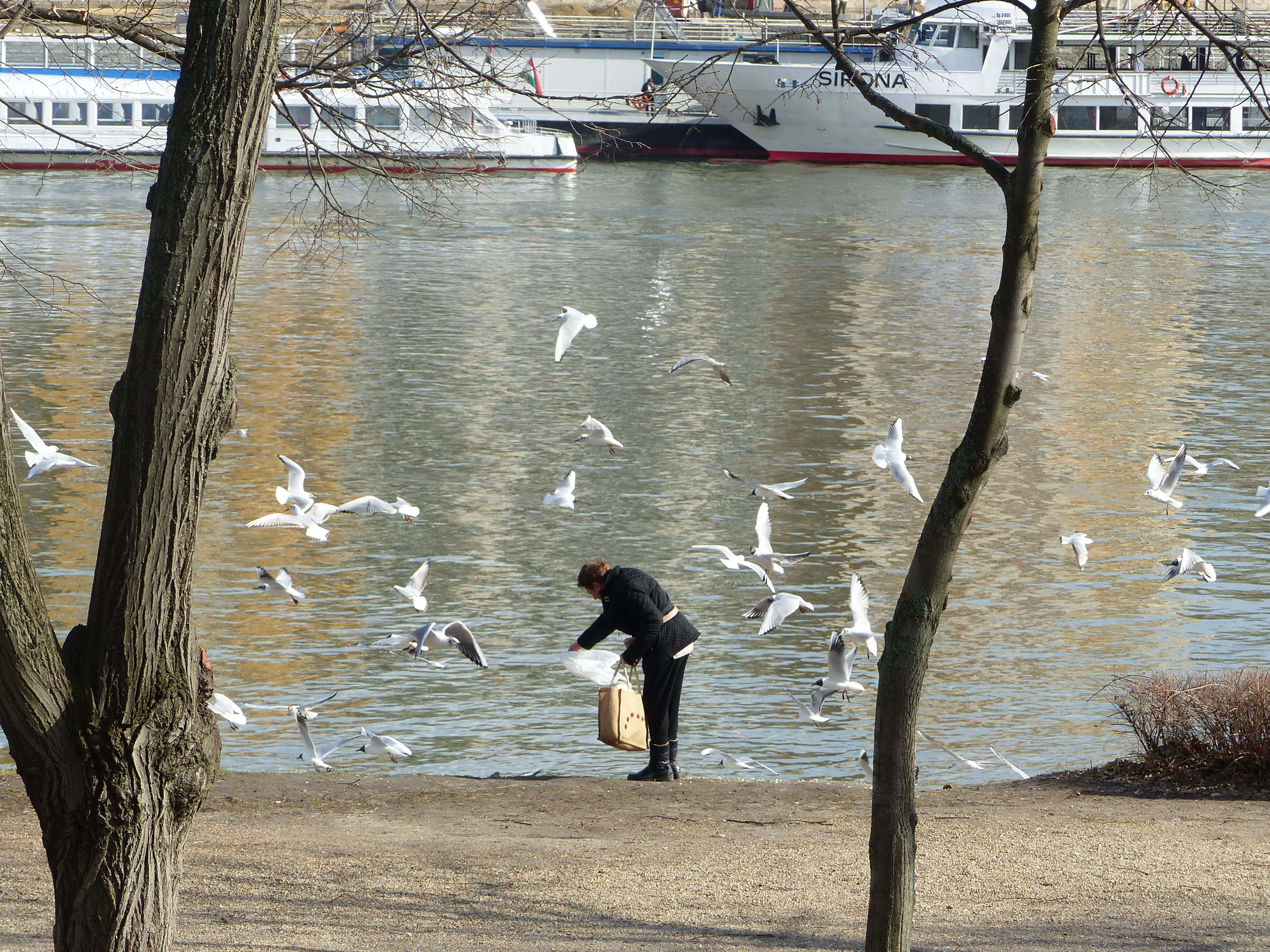 Right in the heart of the city. Taken on the 7th of March, 2017. Bird feeding. Margaret Island, Budapest and panorama from the island. You can get there by Margaret Bridge or by Árpád Bridge, the place is full of people jogging, riding bikes and playing different sports.